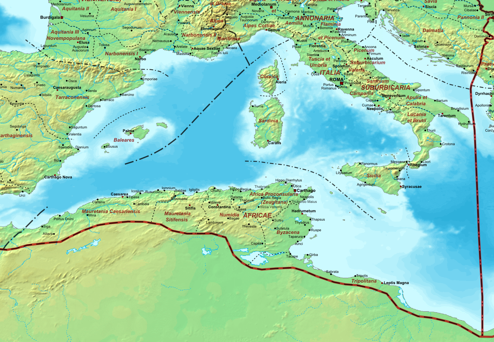 Map of the Roman Empire ca. 400 AD, showing the administrative division into dioceses and provinces, as well as the major cities. The demarcation between Eastern and Western Empires is noted in red.